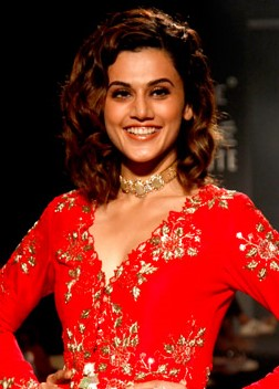 Taapsee Pannu walks for Divya Reddy at Lakme Fashion Week 2017.